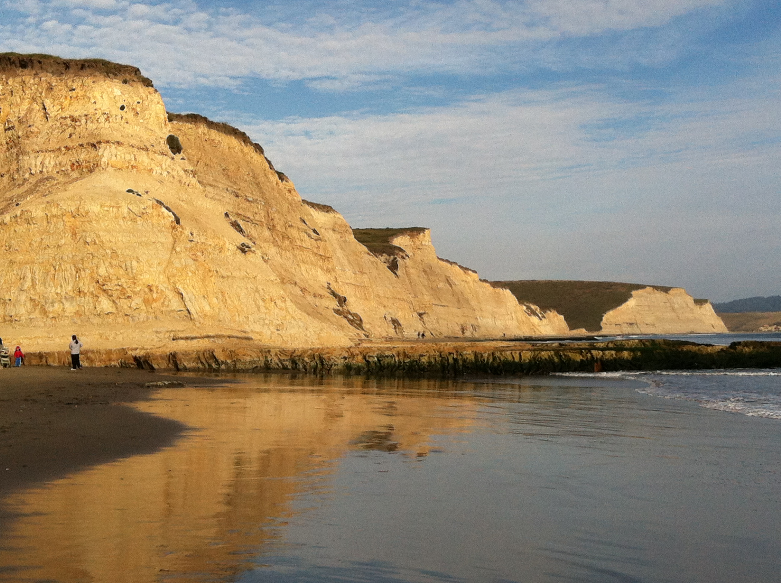 Drakes Bay Historic and Archeological District, Address Restricted Point Reyes Station vicinity